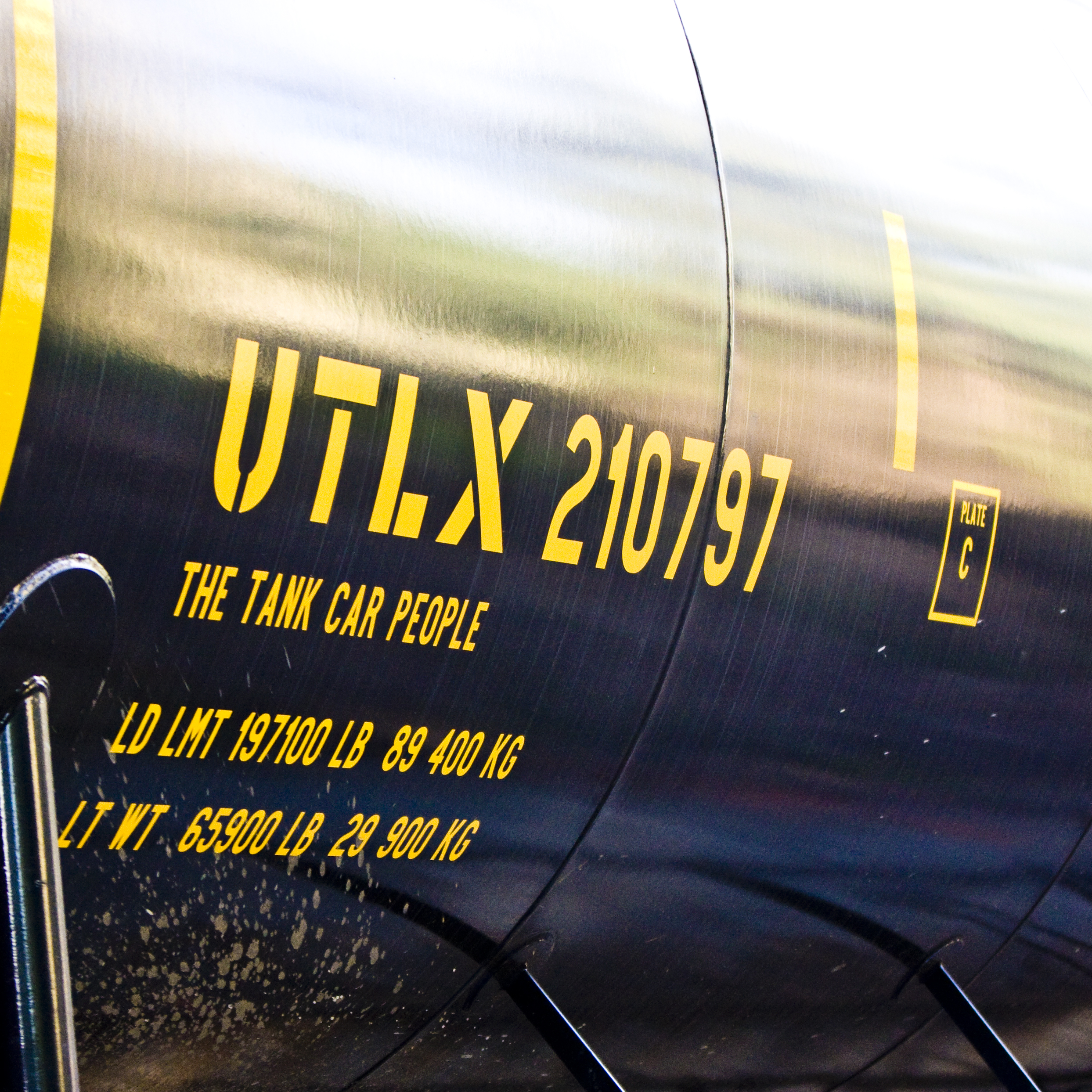 The Union Tank Car Company.